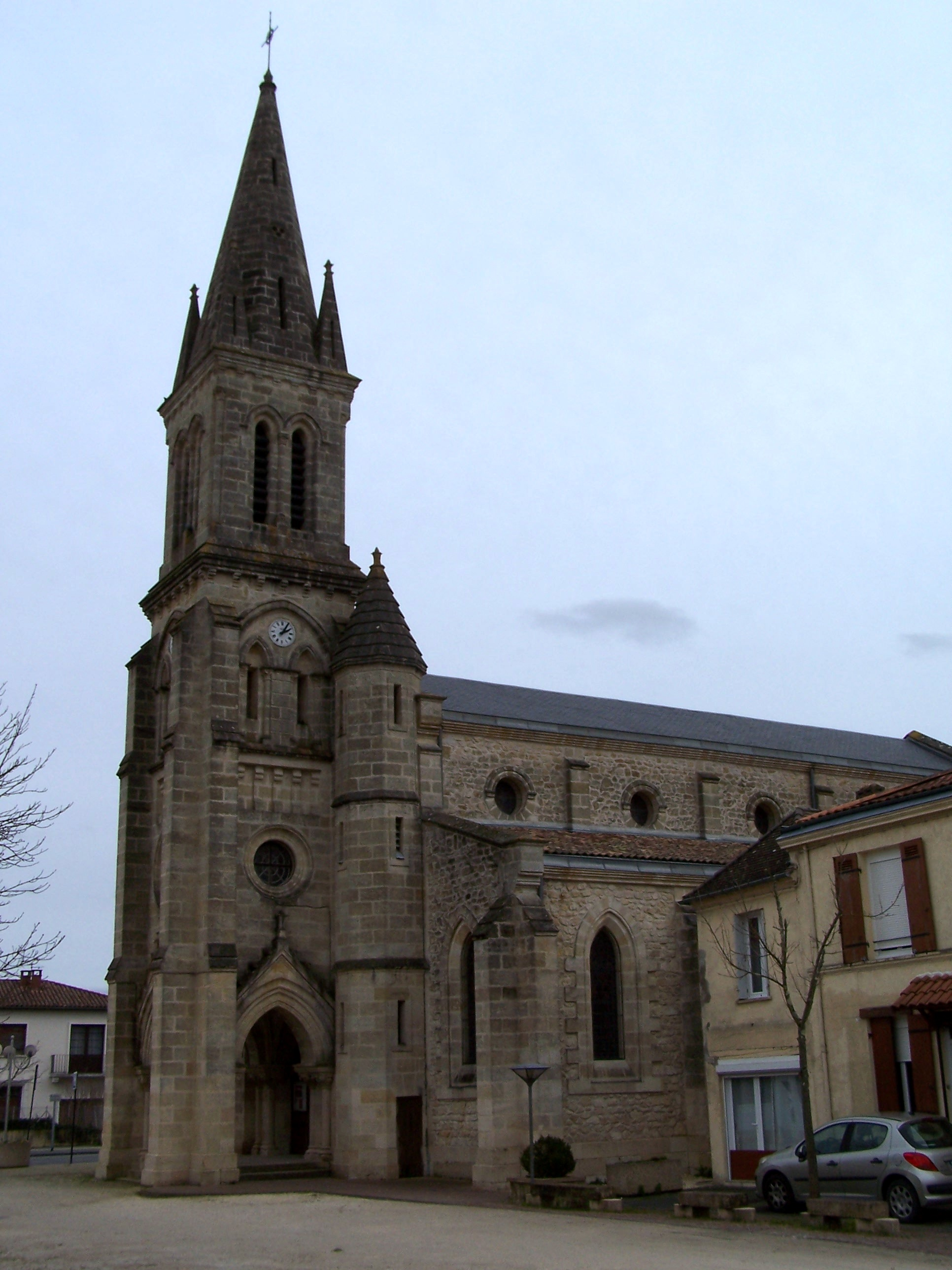 Our Lady's church of Ambès (Gironde, France)